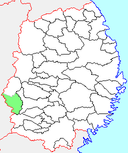 map of former Yuda Town, Iwate Prefecture, Japan